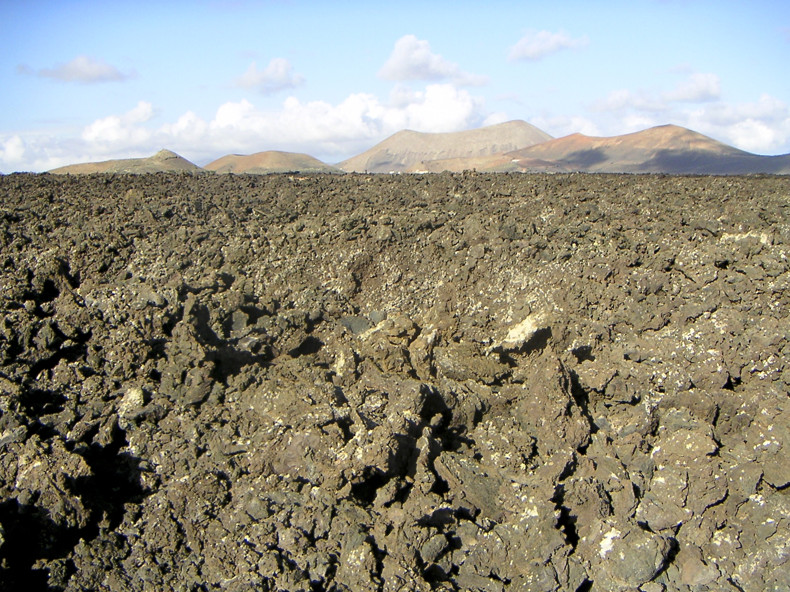 View over a lava field towards the Montañas del Fuego on Lanzarote